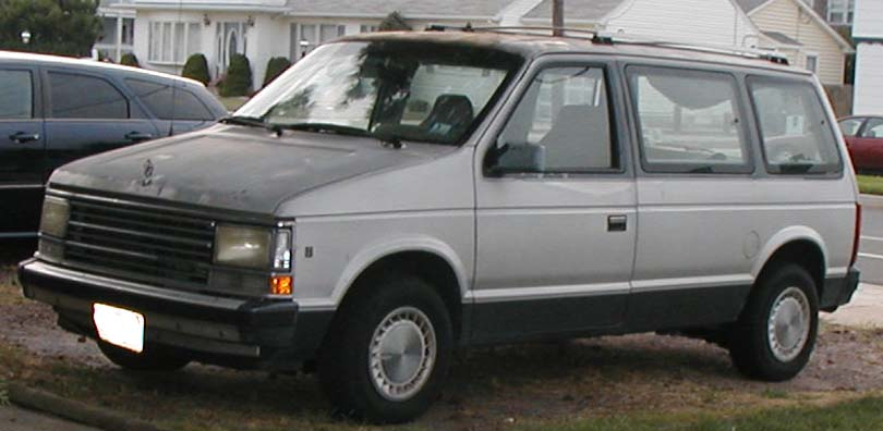 1987-1990 Plymouth Voyager photographed in USA.